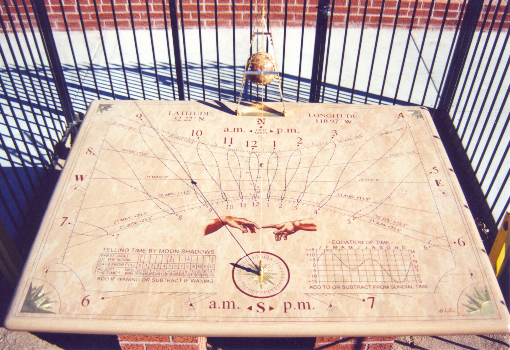 This is a large hand-carved stone horizontal sundial by sundial maker and designer, John Carmichael. It is located at Flandrau Planetarium and Science Center at the Unversity of Arizona in Tucson.